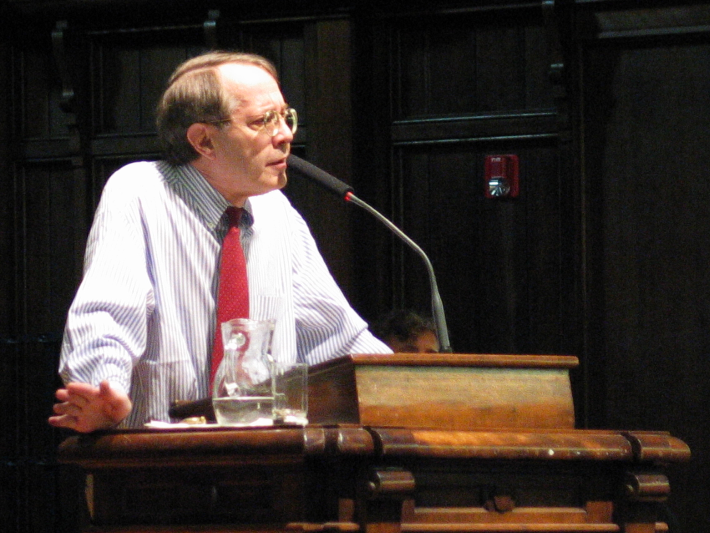 Jonathan Kozol at Pomona College 17 April 2003